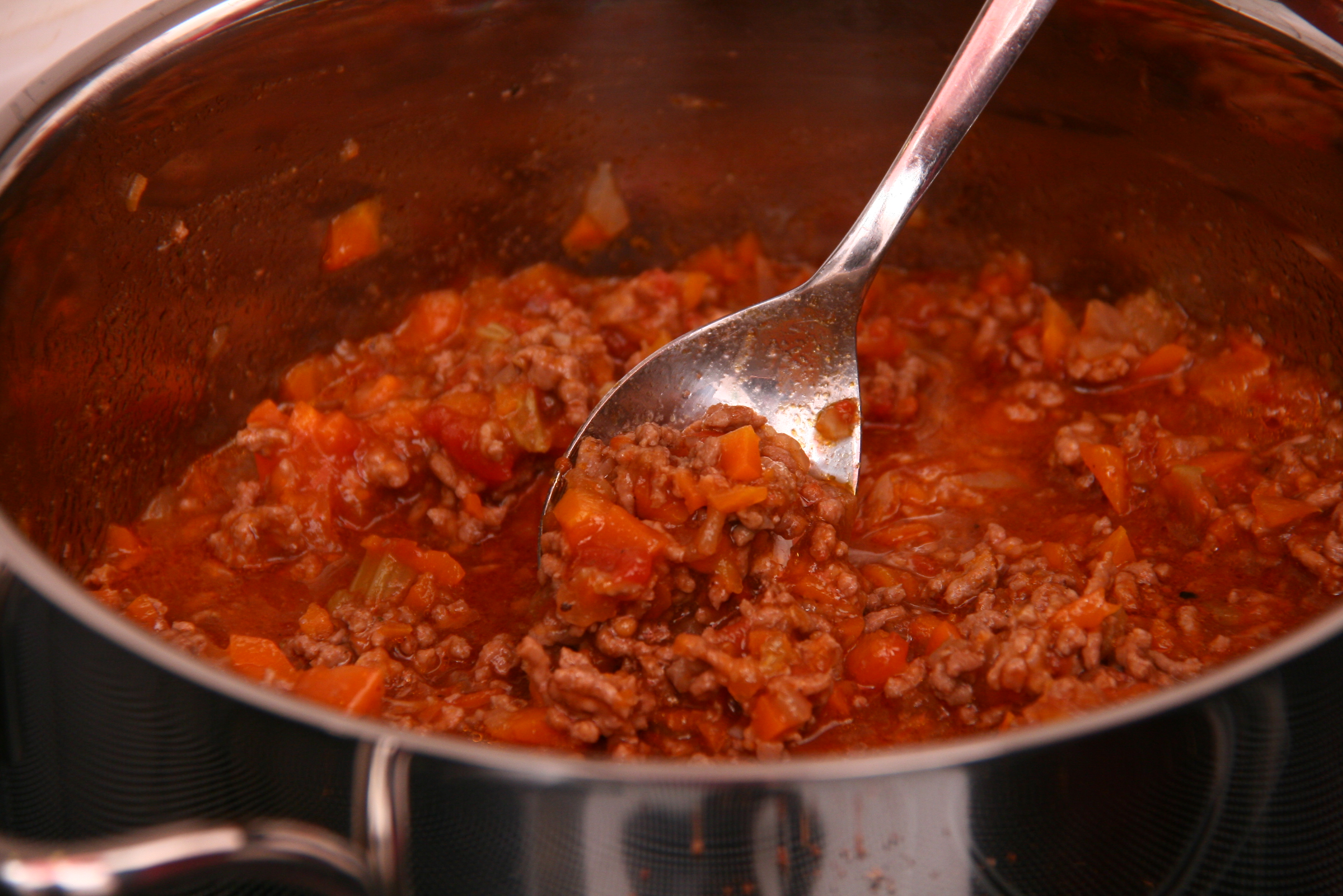 A pot with Bolognese sauce.